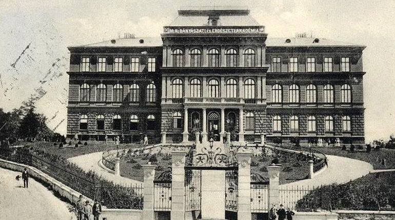 Postcard of Banská Štiavnica